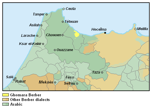 Map of Ghomara Berber speaking areas (in yellow) ; derived from File:Nord du Maroc, carte ethno-linguistique.PNG